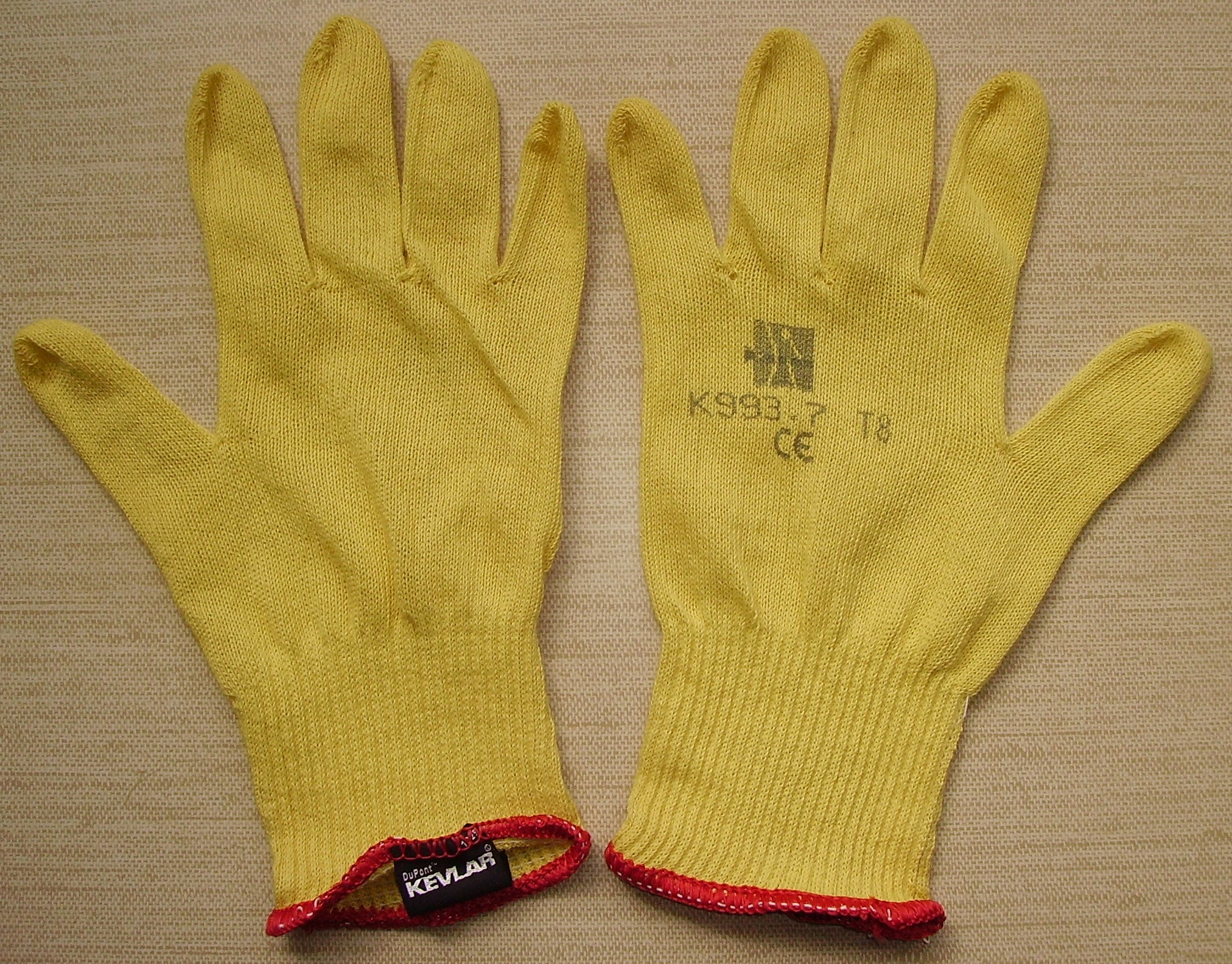 Kevlar gloves.